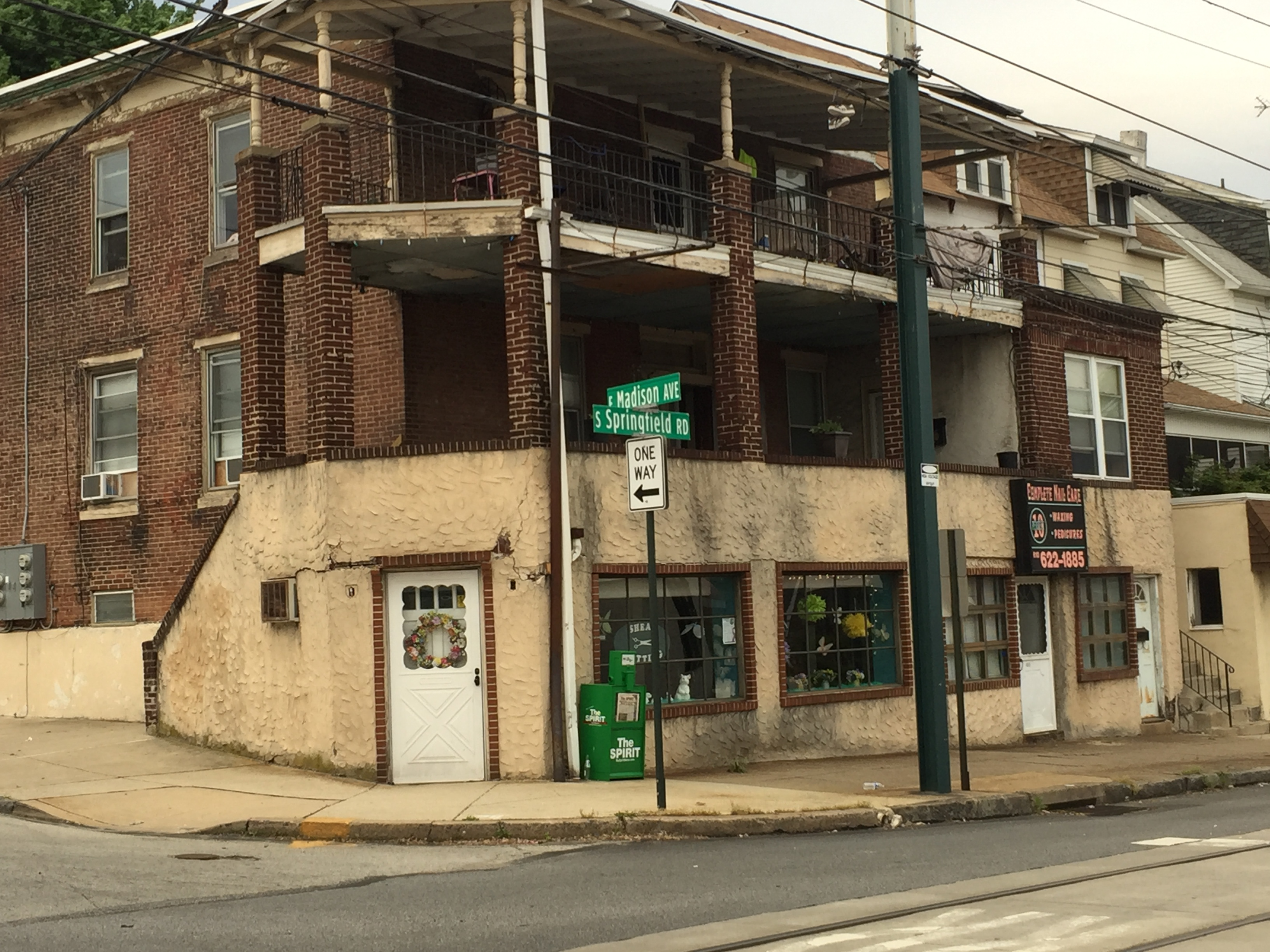 Springfield Road station